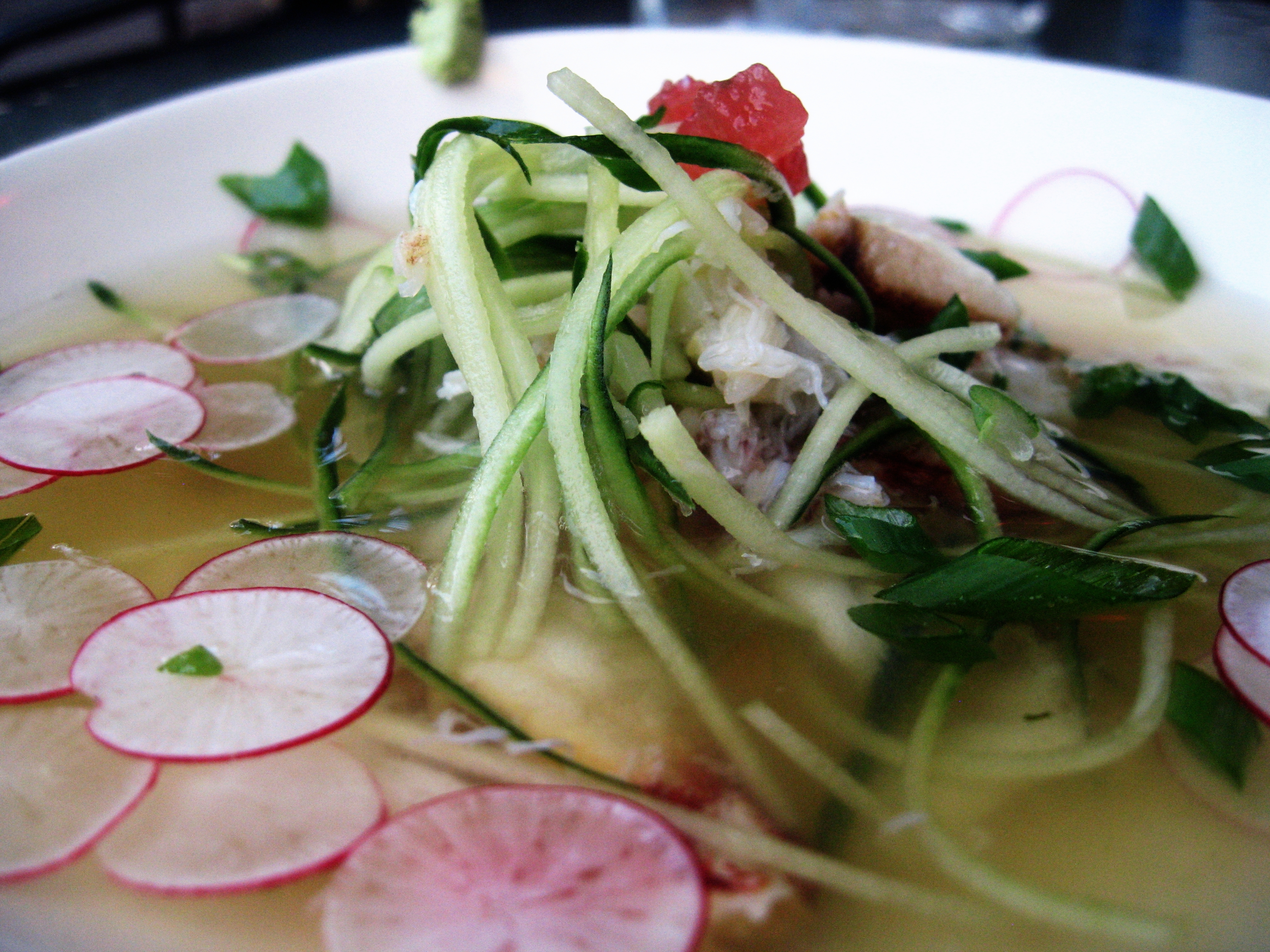 Dungeness crab & cucumber salad in light watermelon dashi @ Tanuki